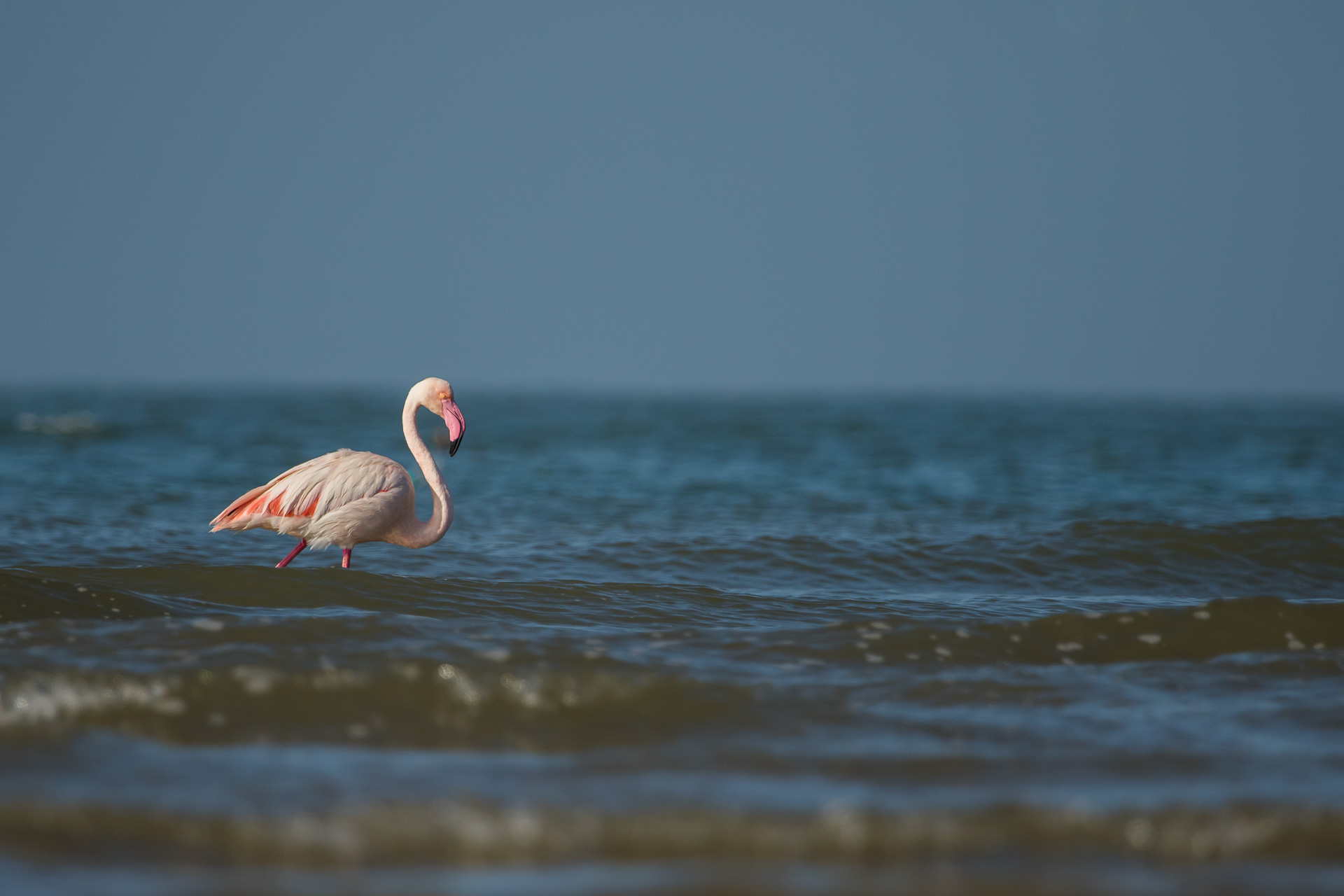 Greater Flamingo in Mandvi beach.